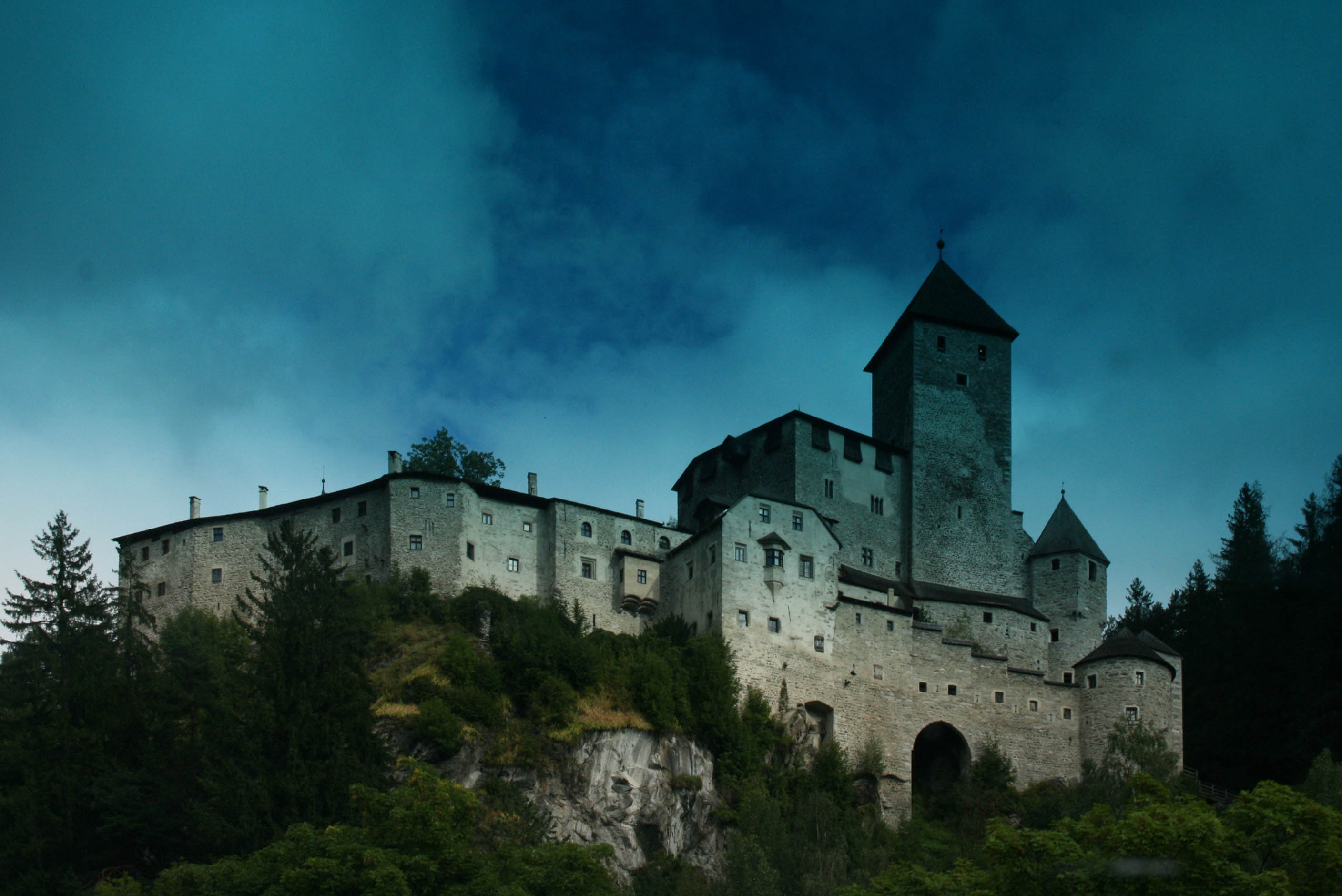 Castle Taufers in Sand in Taufers, South Tyrol